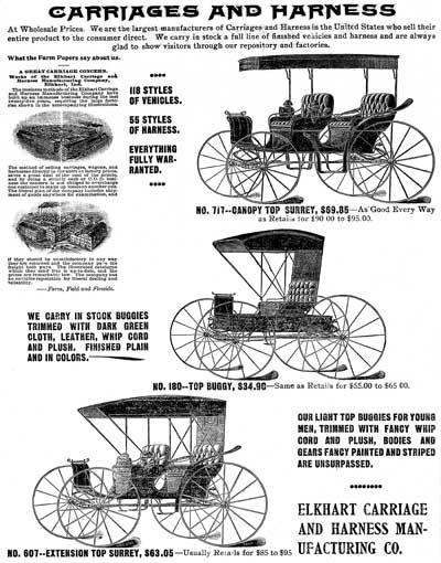 1897 advertisement for horse buggies and surreys by the Elkhart Carriage & Harness Mfg. Co. of Elkhart, Indiana, which was the largest manufacturer of such vehicles who sold by mail order.